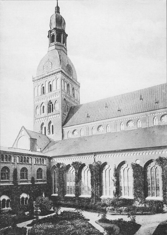 Dom. Cathedral church. Interior courtyard of the Dom Church.